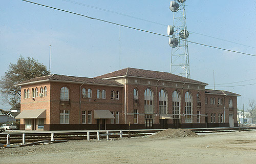 The ex-SP station in Stockton in November 1979